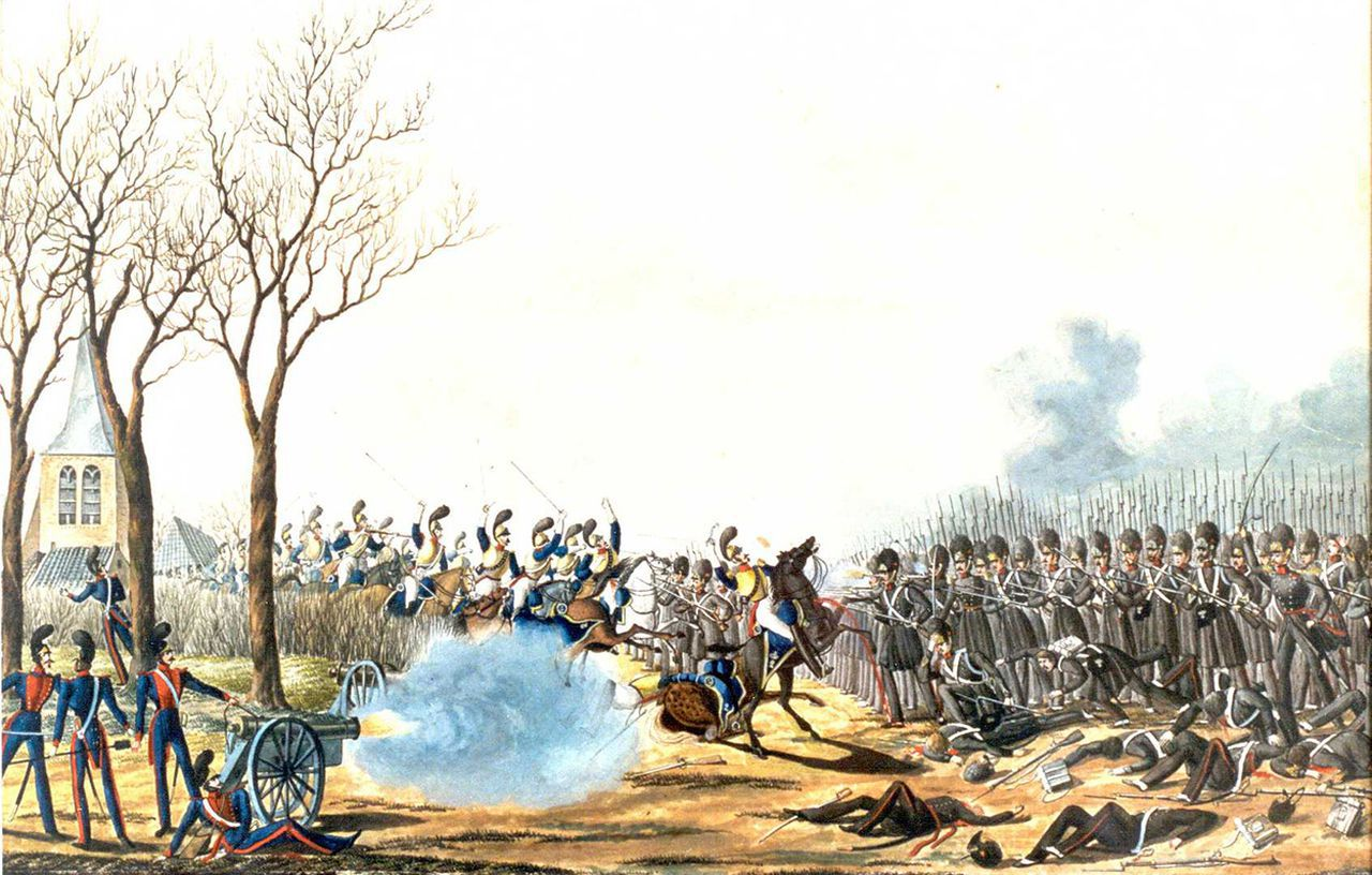 Aquarel of the Battle of Houthalen by A. von Geusau